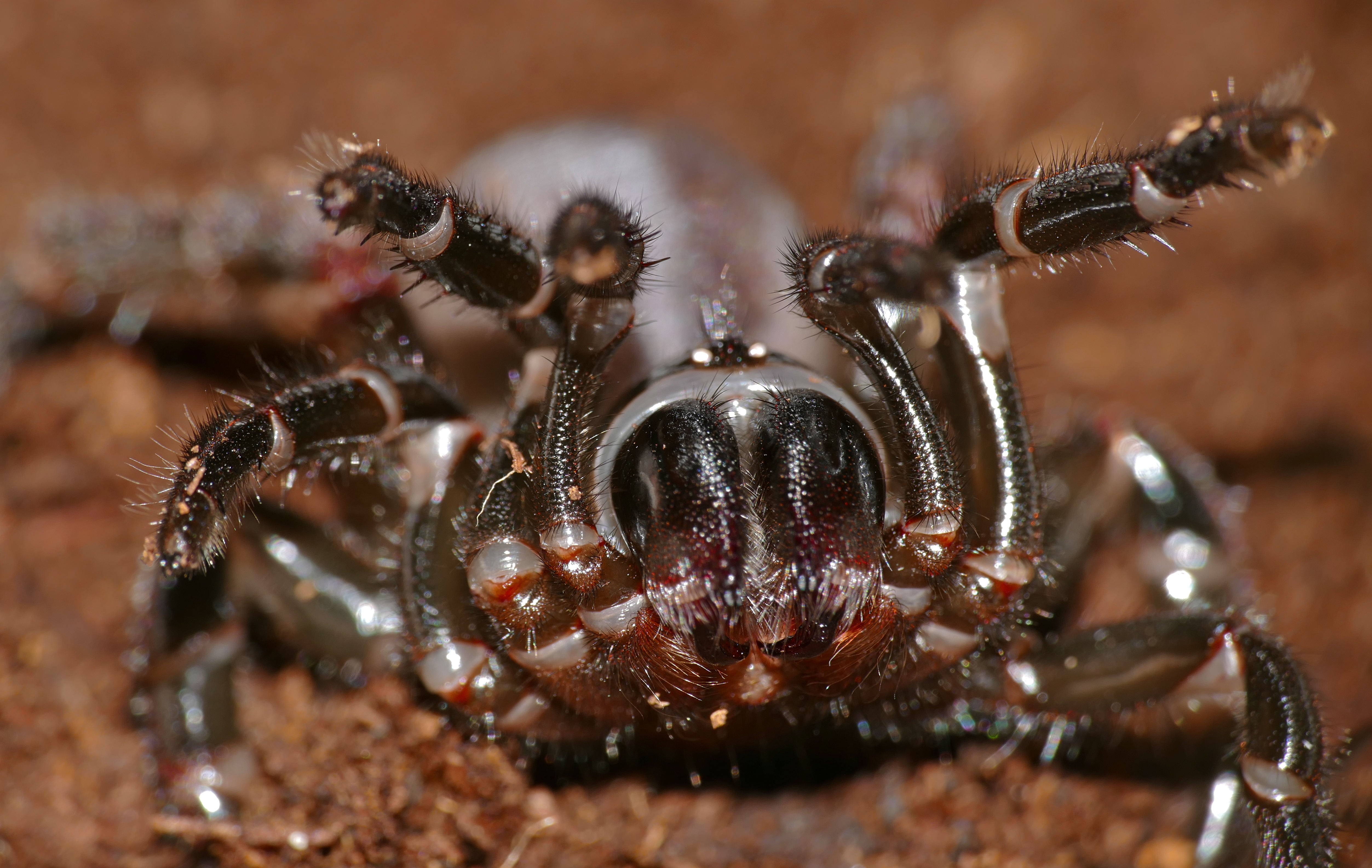 Corse, FRANCE (Captive specimen)